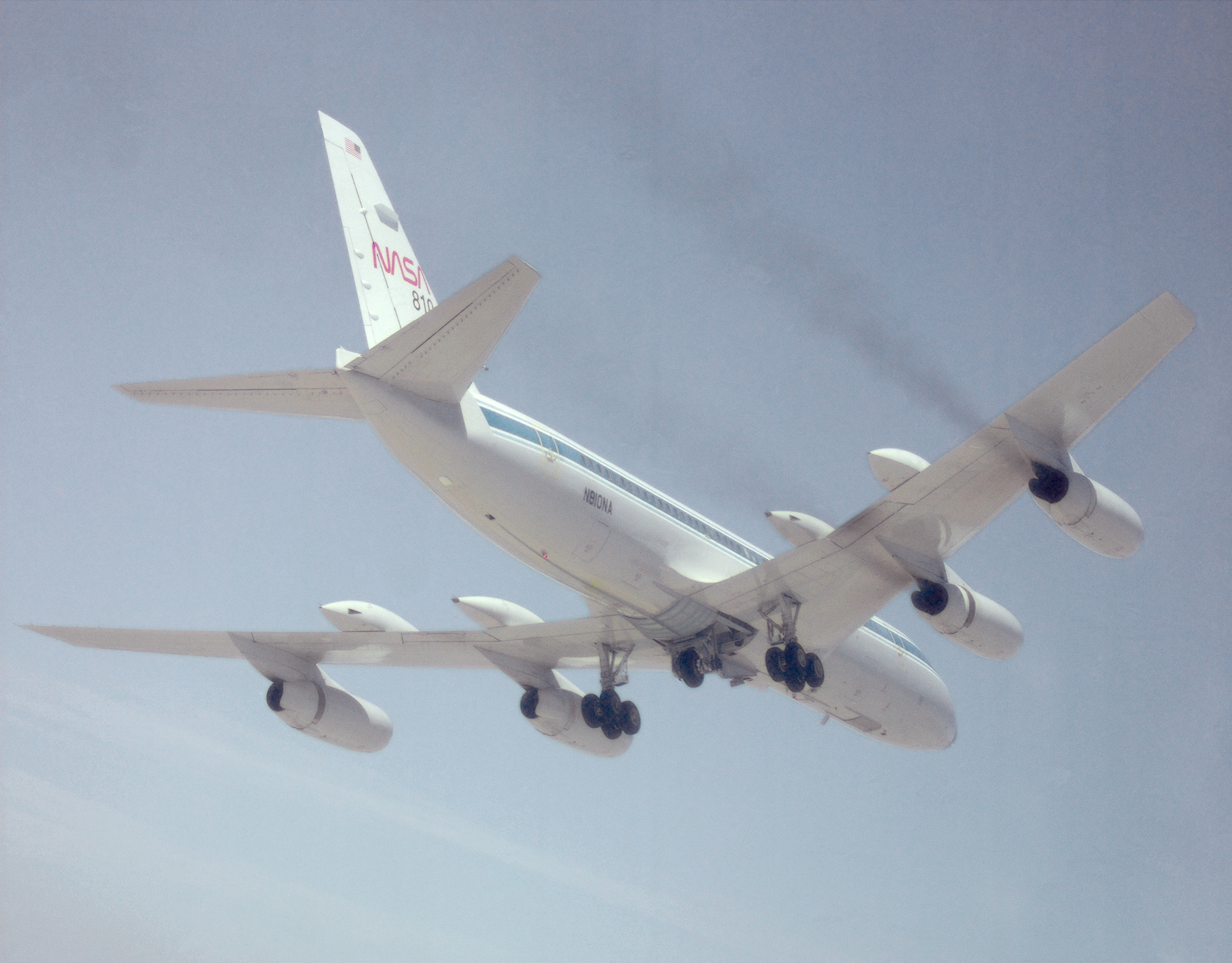 Convair CV 990 NASA 810 (N810NA), A space shuttle landing gear system is visible between the two main landing gear components on this NASA CV-990, modified as a Landing Systems Research Aircraft. The space shuttle landing gear test unit, operated by a high-pressure hydraulic system, allowed engineers to assess and document the performance of space shuttle main and nose landing gear systems, tires and wheel assemblies, plus braking and nose wheel steering performance.